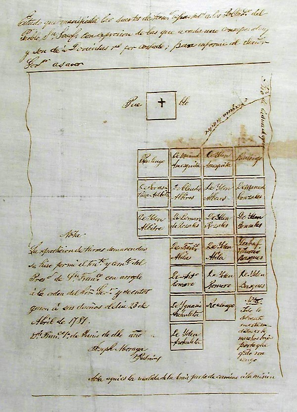 1781 Diseño (map) of San Jose from the Pueblo Papers.